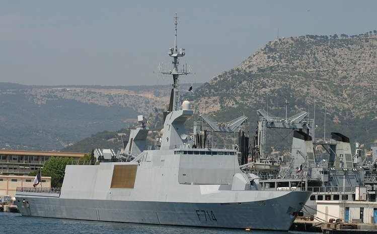 (no responsibility is taken for the correctness of this translation): The frigate Guéprate docked in Toulon harbour (8th of June 2003)